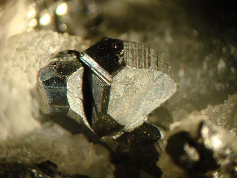 Miargyrite group with 2 main xls of a smooth grey colour (1.7 mm. the biggest xx) on a quartz matrix. The exact location is unknown, but should be assigned to California Rand Silver Mine, Red Mountain, San Bernardino Co, California, USA-FOV 2x3 aprox